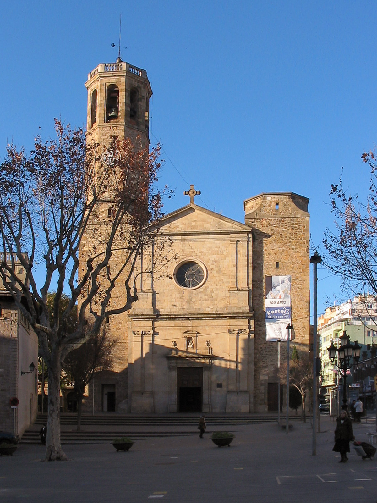 Church of Sant Vicenç de Sarrià, Barcelona